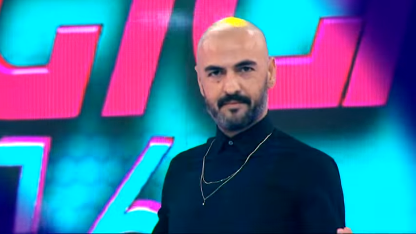 Turkish singer-songwriter Soner Sarıkabadayı performing "Tuzlu Su" at a TV-show called İşte Benim Stilim.